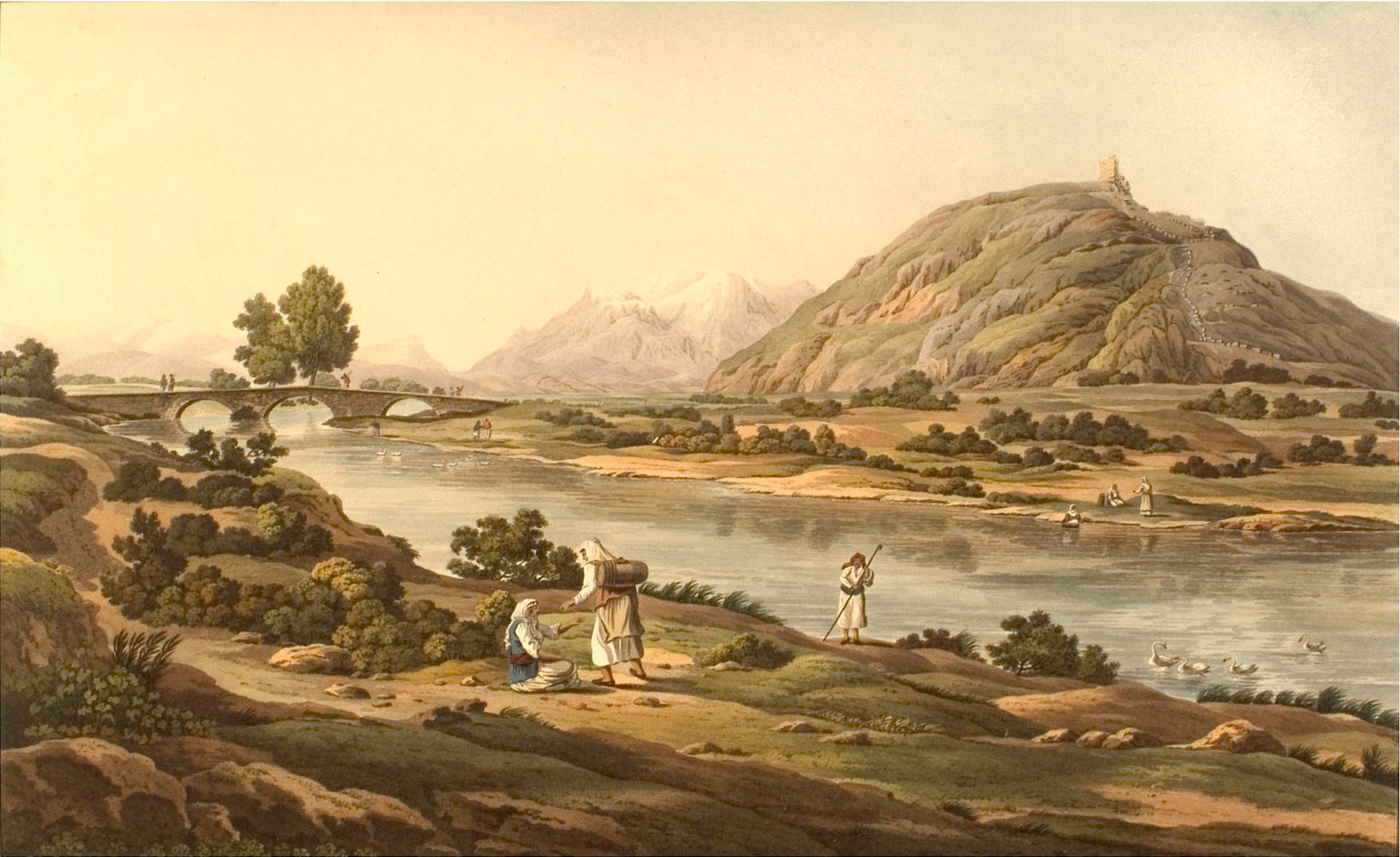 Ruins of Orchomenos